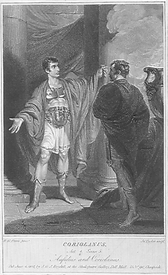 Act IV, Scene 5: Meeting of Coriolanus and Ausidius